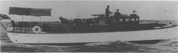 The yacht Vidofner, prior to her service as the United States Navy patrol vessel .